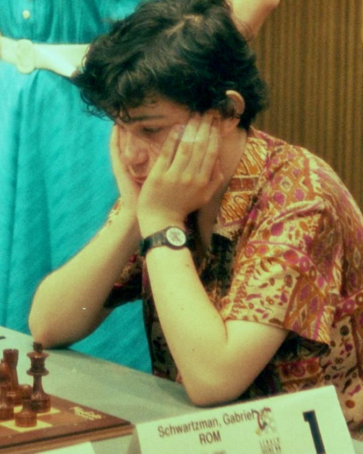 Gabriel Schwartzman, World Youth Chess Championship (under 16) 1992 at Duisburg, Photographer Gerhard Hund.